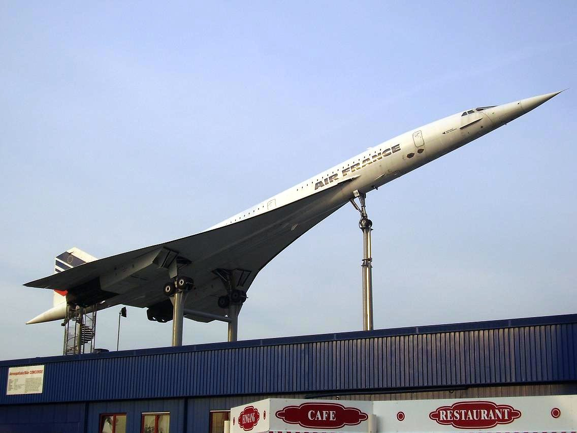 Concorde (Air France) on the roof of the Sinsheim Auto & Technik Museum in Sinsheim, Germany.